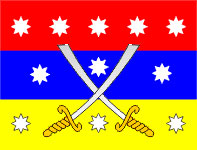 The Flag of Armenian Lusignan dynasty, which was first submitted to the red-blue-yellow colors, in fact, had suffered changes: Added two were sharp and some star.